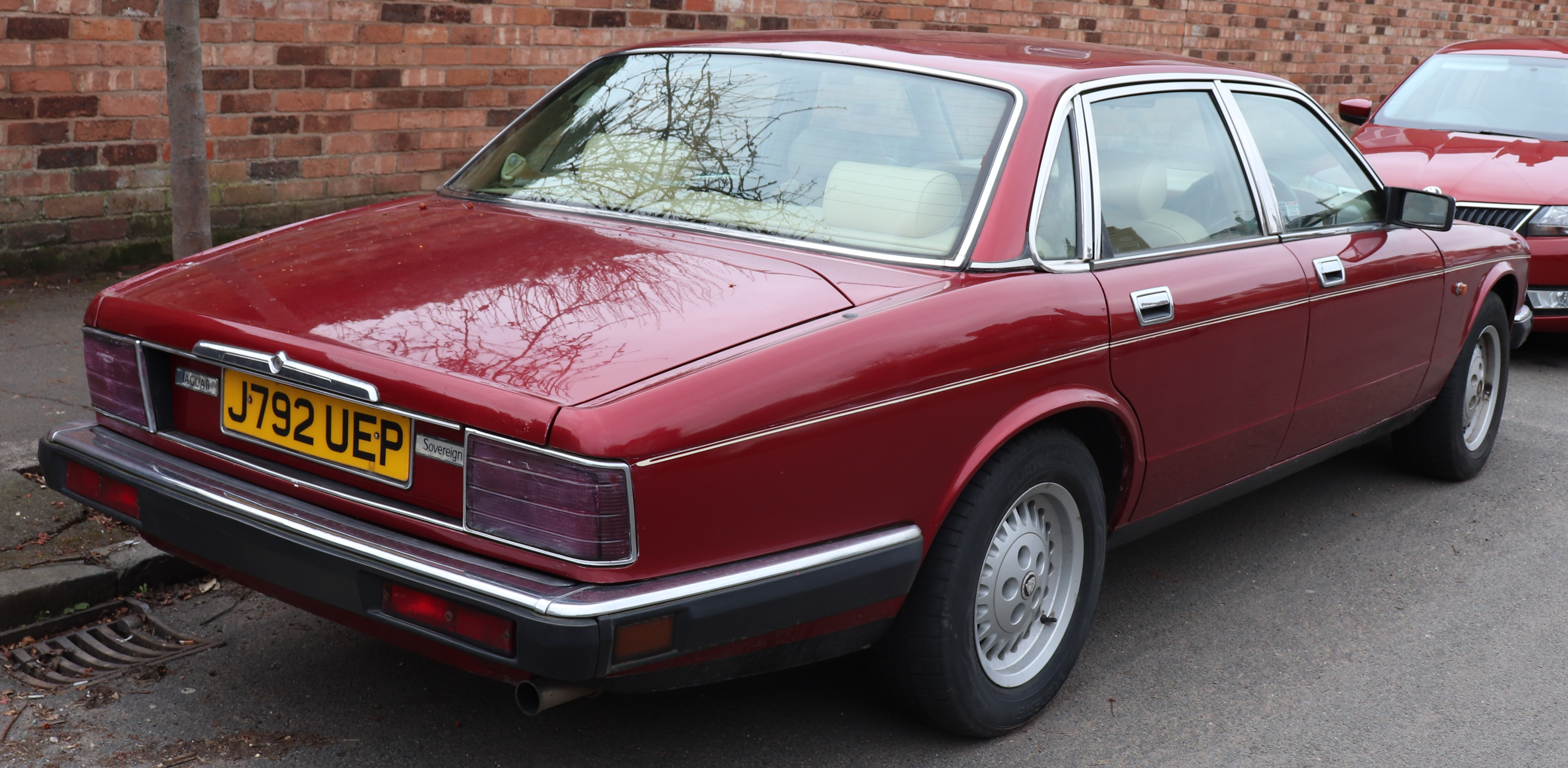 1992 Jaguar Sovereign 4.0 Rear Taken in Leamington Spa